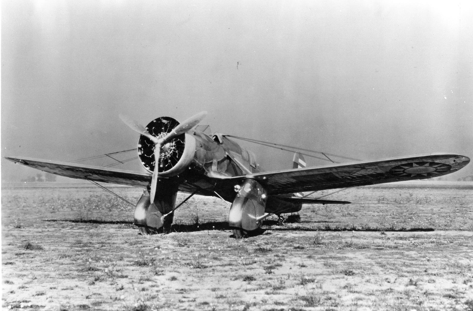 A Curtiss A-12 "Shrike" awaiting delivery to the Chinese Nationalist Air Force in 1936.